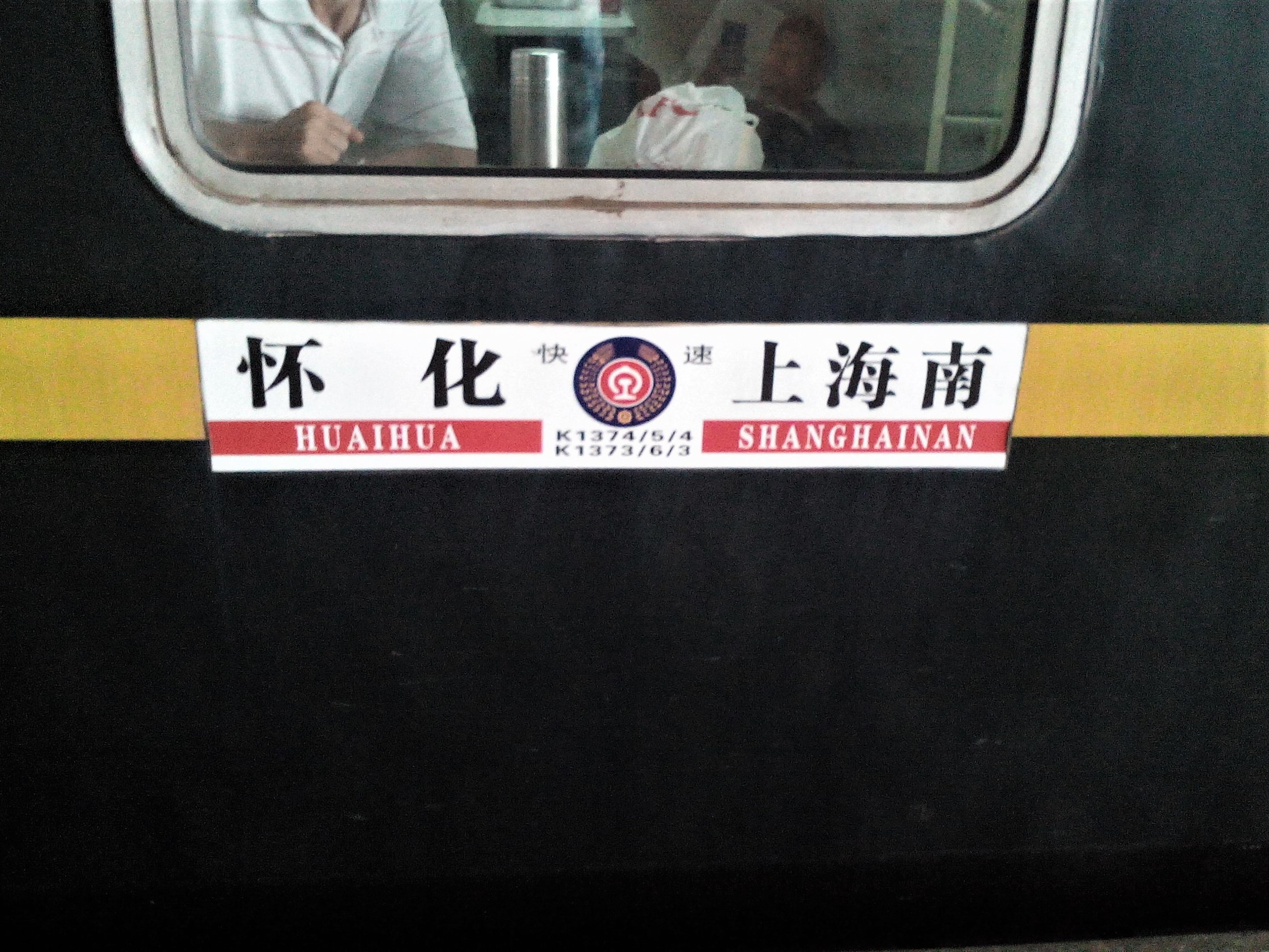 K1373 4 5 6 infoboard in 201509